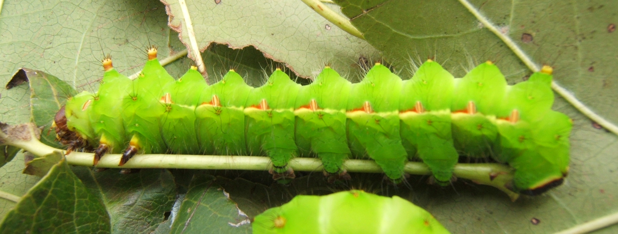 Actias artemis 5th instar larva reared on American Sweetgum. Taken and raised by Shawn Hanrahan.